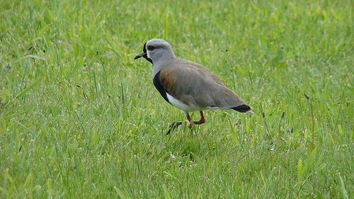 Southern Lapwing of the race Vanellus chilensis chilensis at Valdivia, Chile